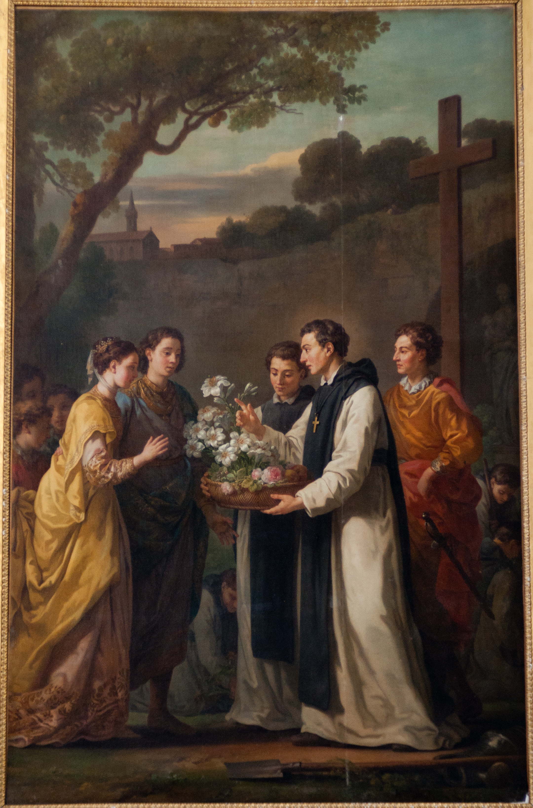 Painting by Joseph-Marie Vien, placed in 1776: Saint Theobald offering an eleven branched lilium to Saint Louis and Marguerite of Provence.